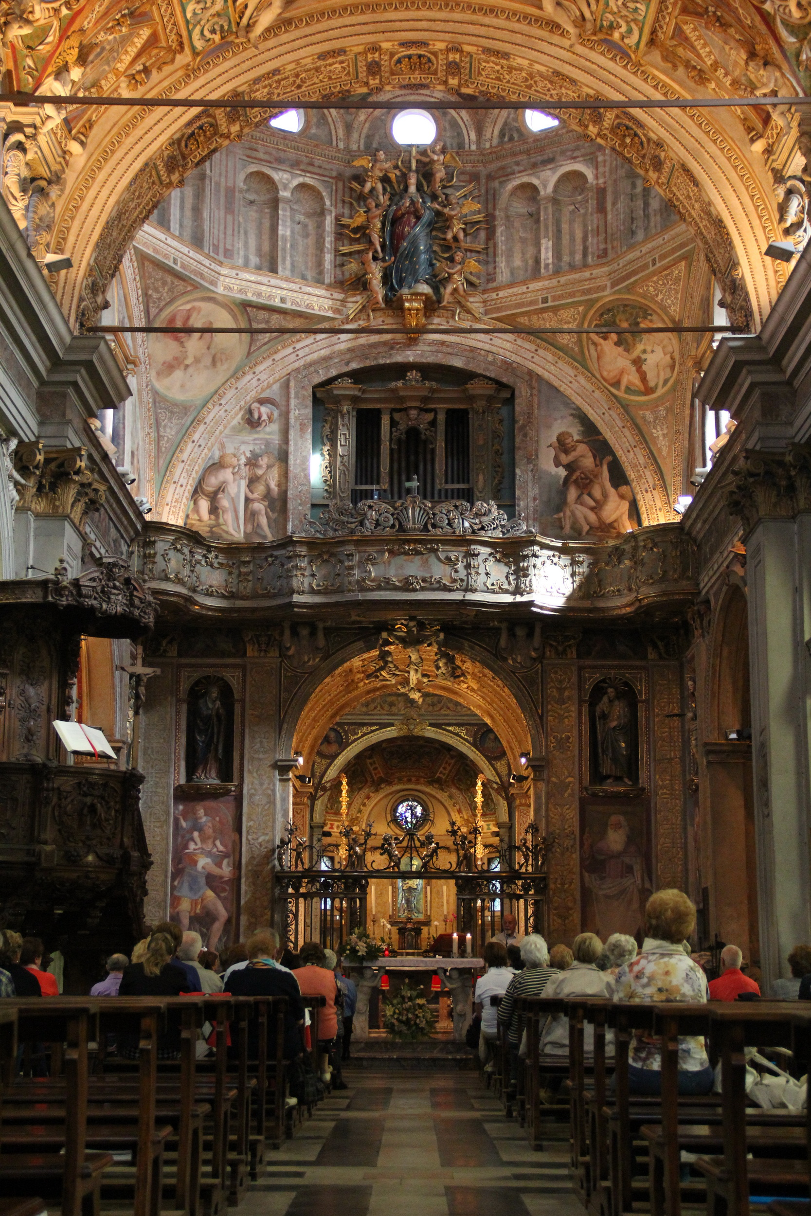 Santuario della Beata Vergine dei Miracoli, Saronno, Lombardy, Italy Santuario della Beata Vergine dei Miracoli Native nameSantuario della Beata Vergine dei MiracoliLocationSaronno, Lombardy, ItalyCoordinates45° 37′ 35″ N, 9° 01′ 32″ E Authority control : Q3471763